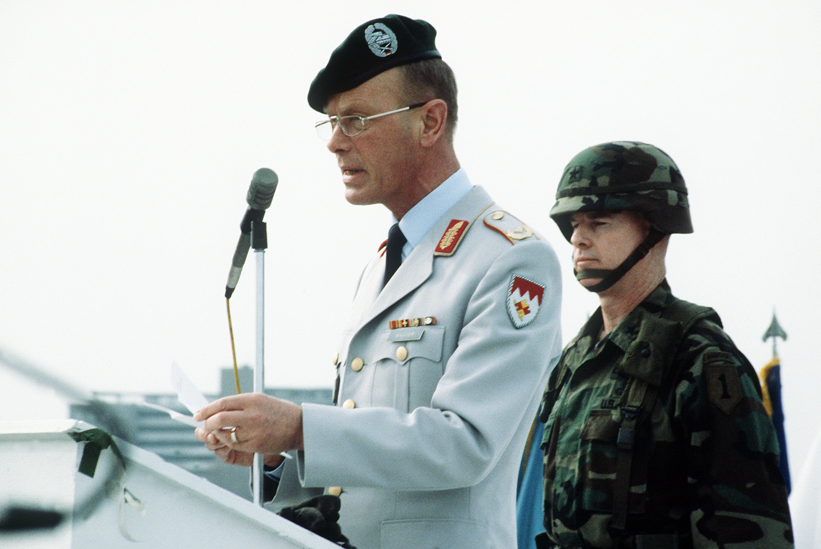 Brig. GEN. Hartmut Bagger, a German officer, addresses the crowd of civilians and military personnel assembled for a farewell ceremony in honor of the U.S. Army's 1ST Infantry Division. The division is being deactivated in the aftermath of Operation Desert Storm.